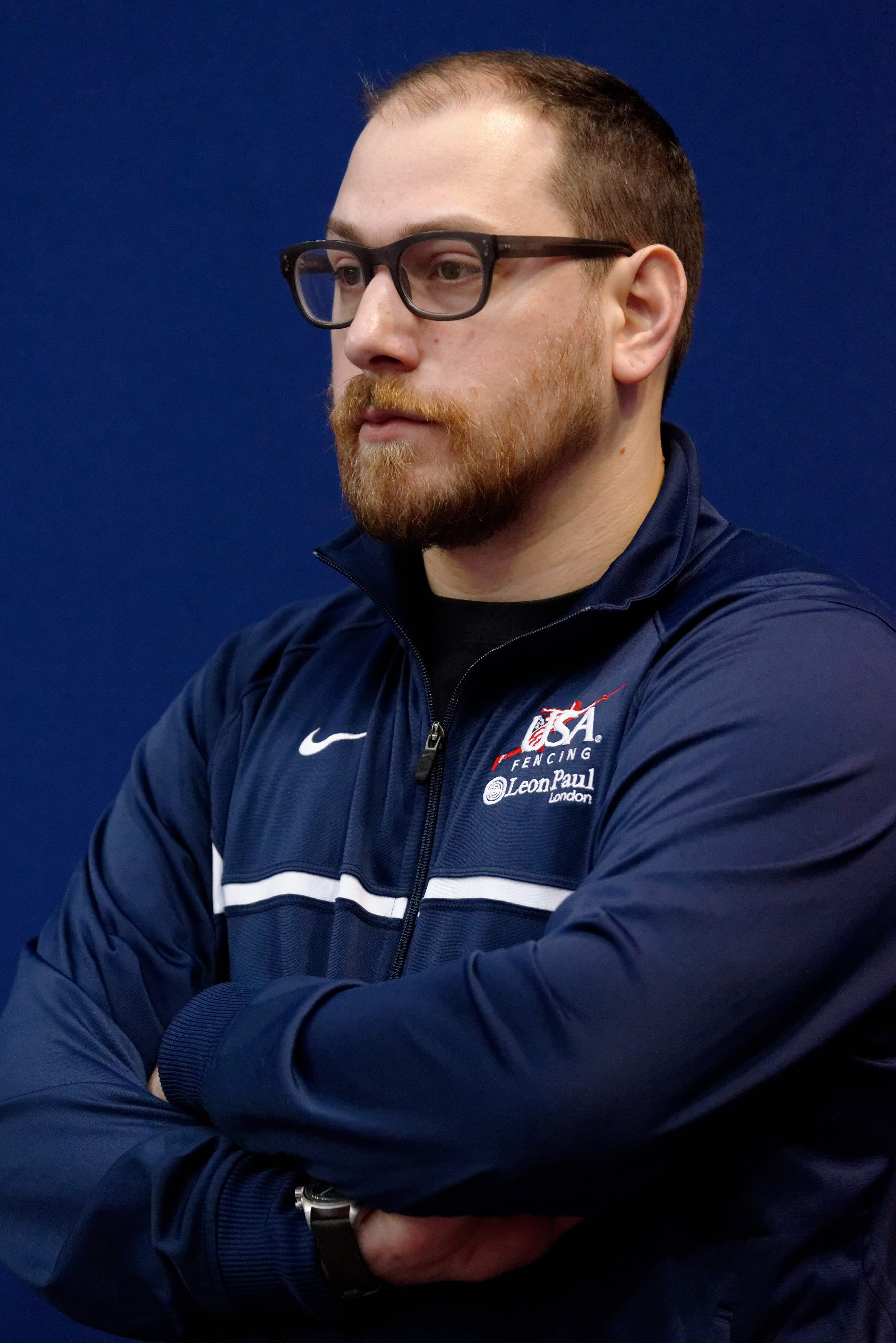 American coach Dan Kellner on qualifications day at the 2015 Challenge International de Paris, a men's foil World Cup competition.